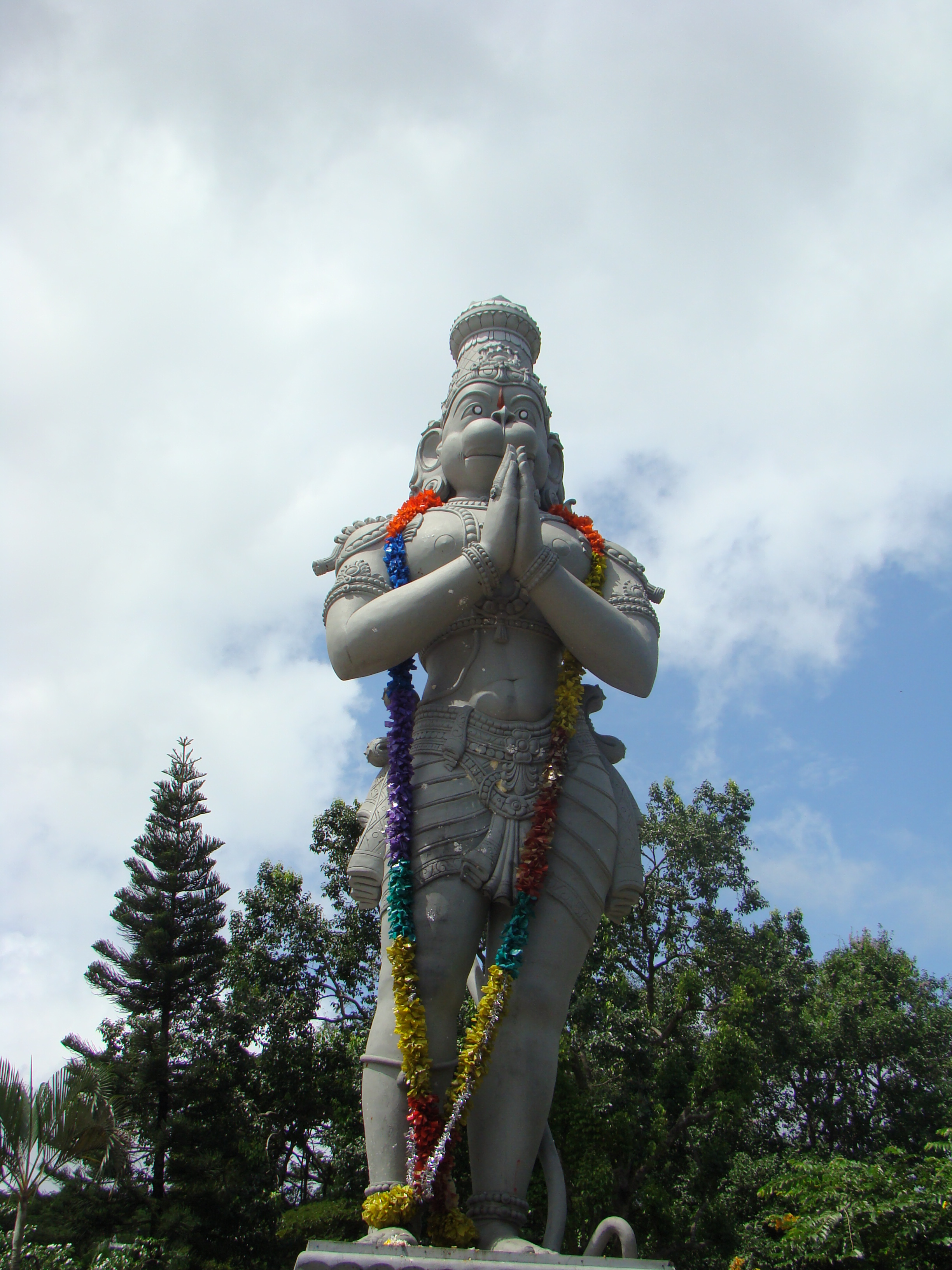 Magnificent statue of Lord Hanuman in Thirumala